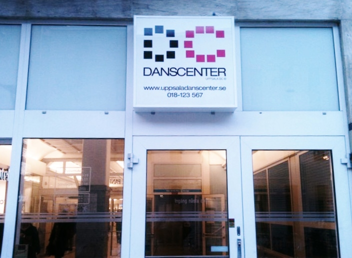 Dance school in Uppsala. October 20, 2014.